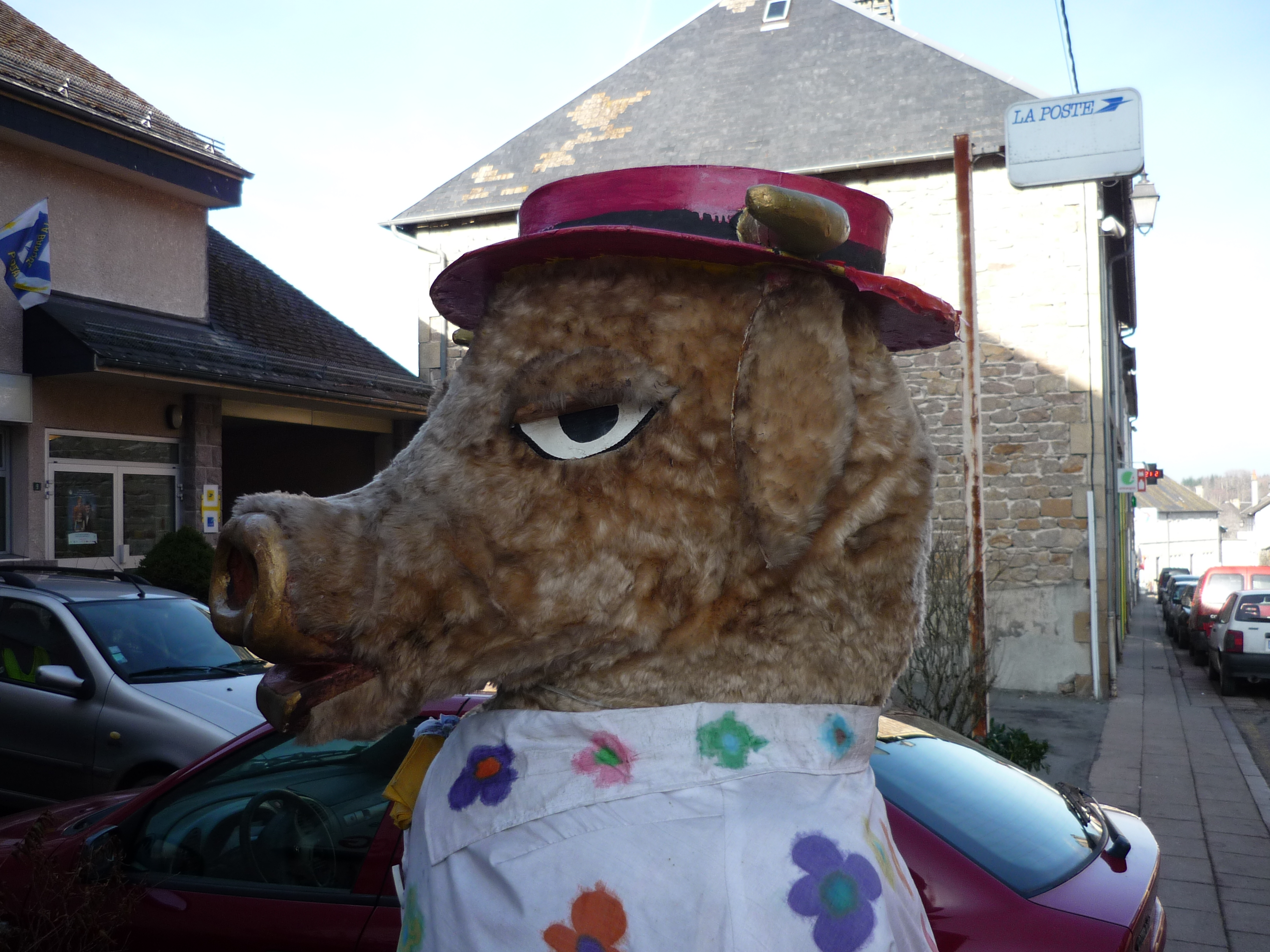 The giant of the Paris'Carnival, 21 february 2009